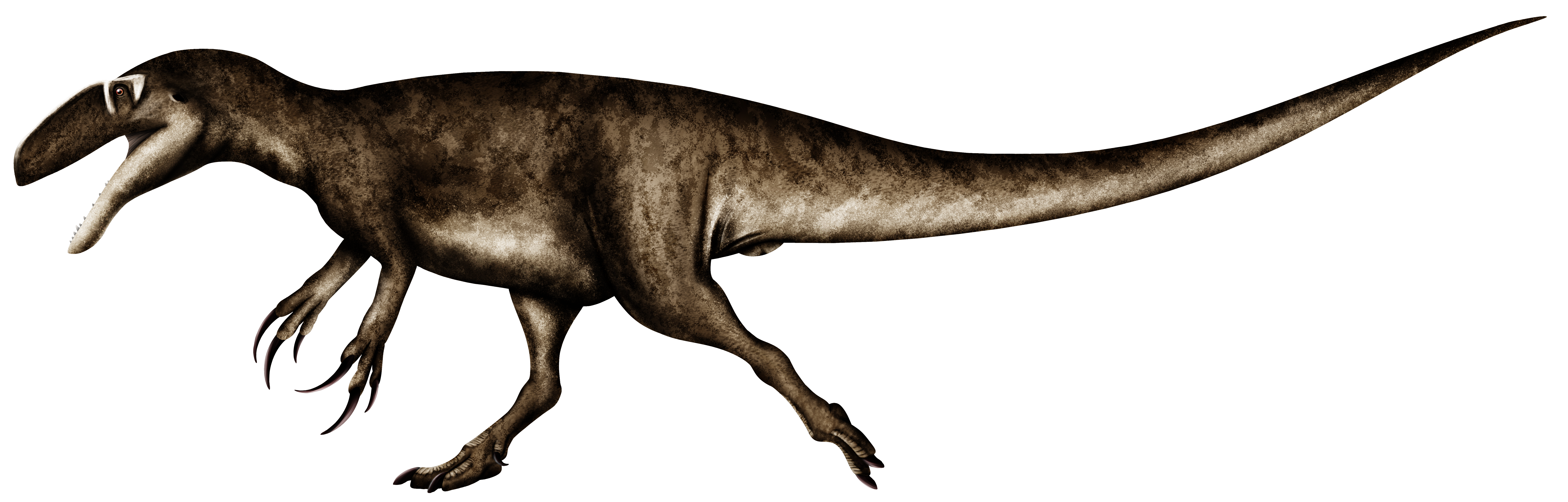 Life restoration of the neovenatorid Siats meekerorum.